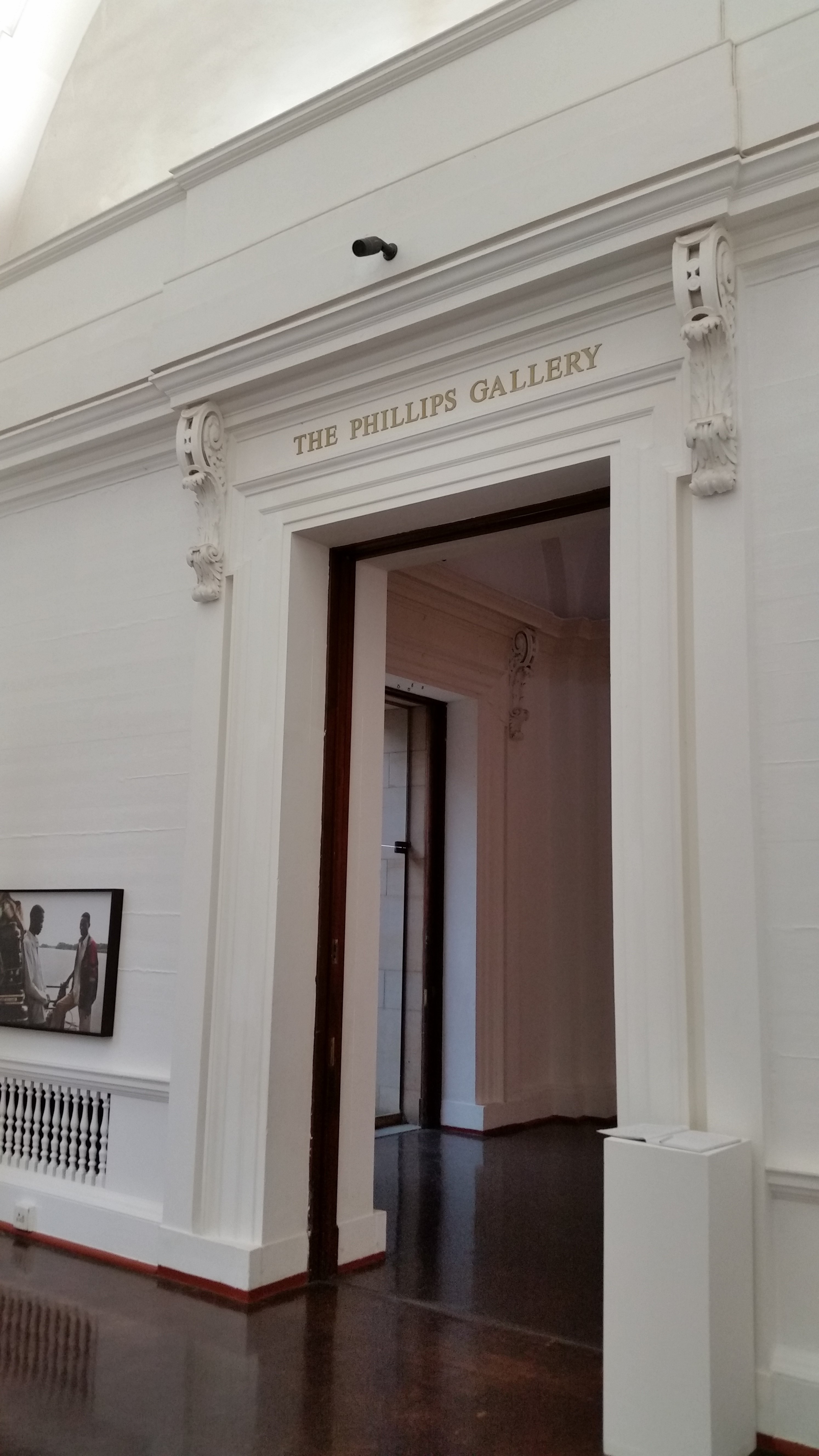 The Phillips Gallery inside the main gallery. This media shows a South African Protected Site with SAHRA file reference 9/2/228/0069.